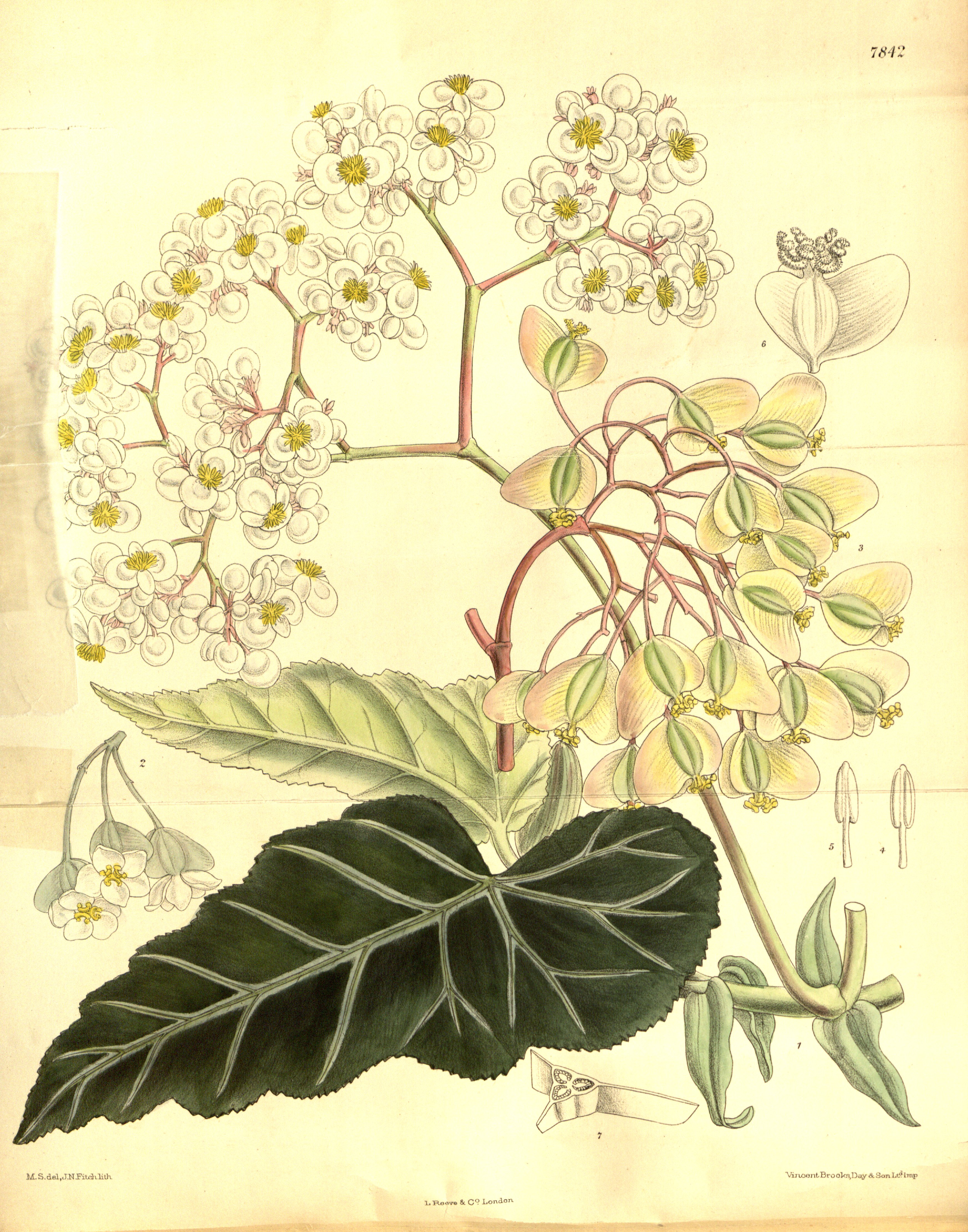 Begonia angularis